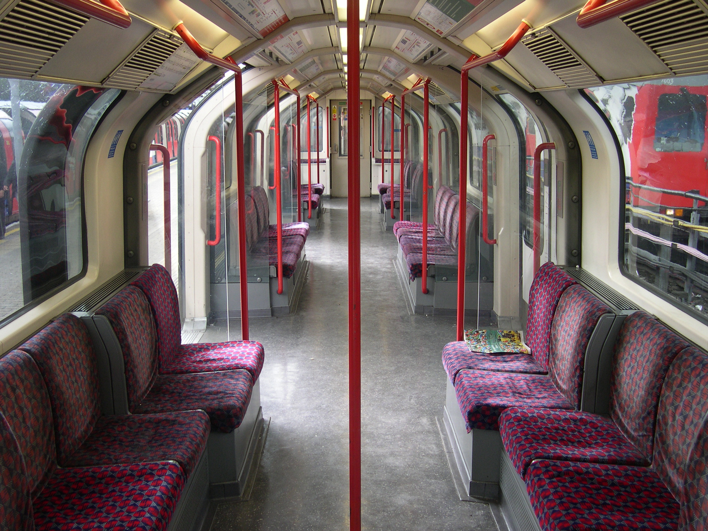 Interior of a 1992 stock at Ealing Broadway Station